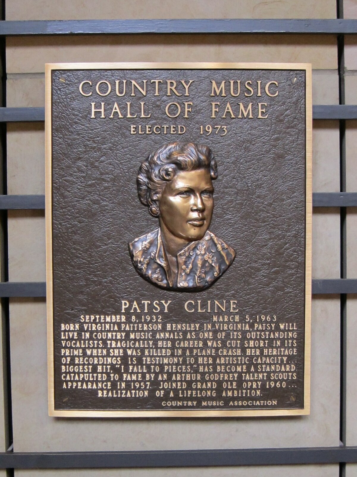 Patsy Cline's Hall of fame plaque